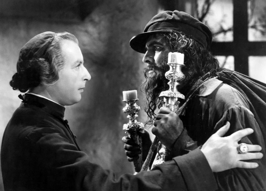 Cedric Hardwicke and Fredric March in the 1935 film Les Misérables, published in National Board of Review Magazine